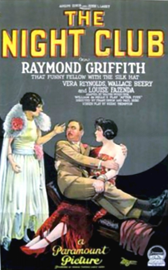 Poster for the 1925 film The Night Club. A renewal search was done in both film and artwork for the years 1952 and 1953. There were no listings for the film's title in film and no listings for Morgan Litho Company (printed the poster) or Paramount in artwork. There's no evidence of continuing copyright on the film or related materials.